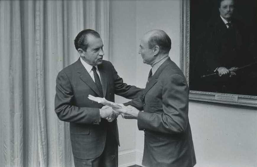 ● Frame(s): WHPO-2570-02-33, President Nixon receiving petitions supporting his Vietnam policies from Representatives and Senators. 12/9/1969, Washington, D.C., White House, Cabinet Room. President Nixon, Representative John Buchanan, Senator Paul Fannin, Congressman John Paul Hammerschmidt, Representative Alphonzo Bell, Representative Jerry Pettis, Senator Peter Dominick, Senator Gordon Allott, Representative Donald Brotzman, Representative Byron Rogers, Senator Thomas Dodd, Representative James Herbert Burke, Representative Robert L.F. Sikes, Senator Edward Gurney, Representative John Anderson, Representative Paul Findley, Representative David Dennis, Representative Earl Landgrebe, Representative Roger Zion, Representative E. Ross Adair, Representative Larry Winn, Representative James Cleveland, Representative Carleton King, Senator Strom Thurmond, Representative James Broyhill, Representative Wilmer Mizell, Representative Earl Ruth, Representative Delbert Latta, Representative Edwin Eshleman, Representative Ray Blanton, Representative James Wright, Representative Robert Price, Representative Sherman Lloyd, Representative G. William Whitehurst, Representative William Steiger, unidentified men